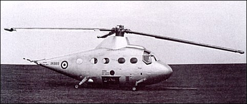 Original image taken by a British government employee prior to 1956.